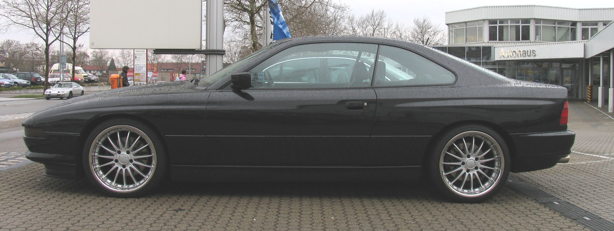 Beschreibung: BMW 850 Alpina B12 Quelle: selbst aufgenommen & bearbeitet Fotograf: CrazyD, 12. April 2006 Lizenzstatus: GNU FDL Description: BMW 850 Alpina B12 Source: photo was taken and modified by my self Photographer: CrazyD, 11 April 2006 Licence: GNU FDL